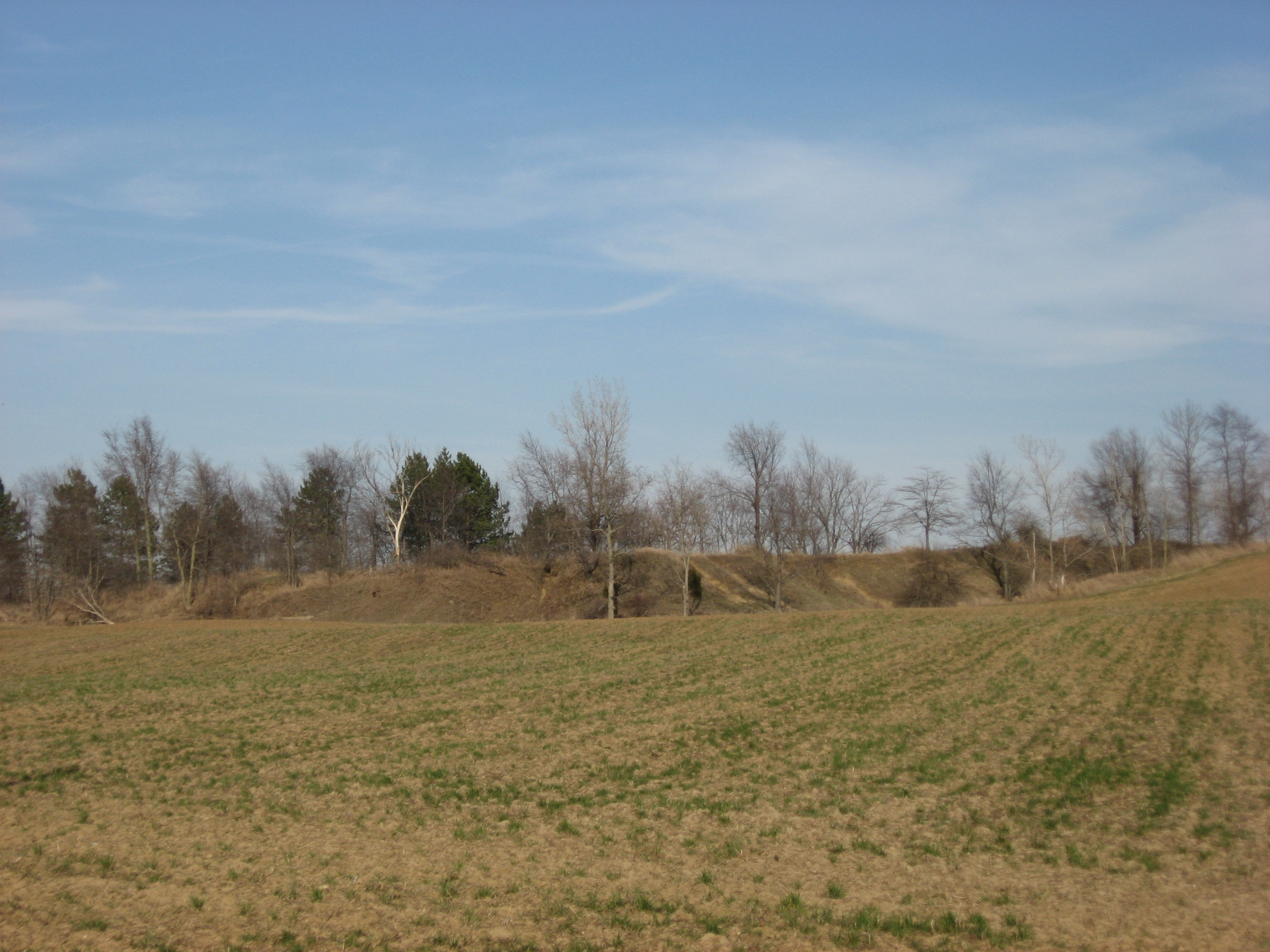 Western side of the Zimmerman Kame, located on the eastern side of Township Road 39 northeast of Roundhead in far western McDonald Township, Hardin County, Ohio, United States. A glacial kame that was quarried until the 1970s, it was a burial site for ancient Native Americans and is listed on the National Register of Historic Places.